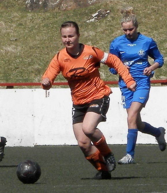 Fríðrun Olsen (maden name Danielsen) is a Faroese football player. Here she is playing for Skála ÍF against FC Suðuroy in 2012.